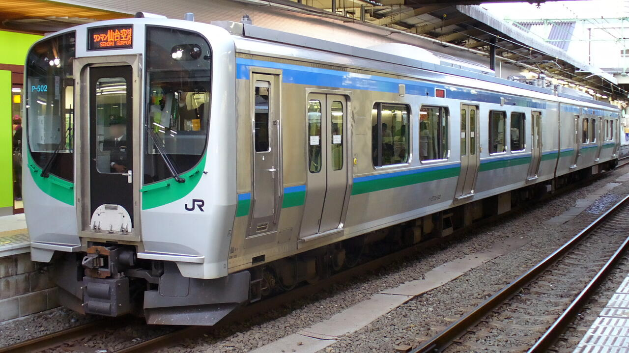 JR East E721-500 series EMU set P-502 at Sendai Station on a service to Sendai Airport